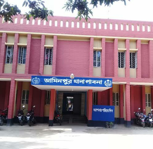 This is a big Police Station in Pabna District